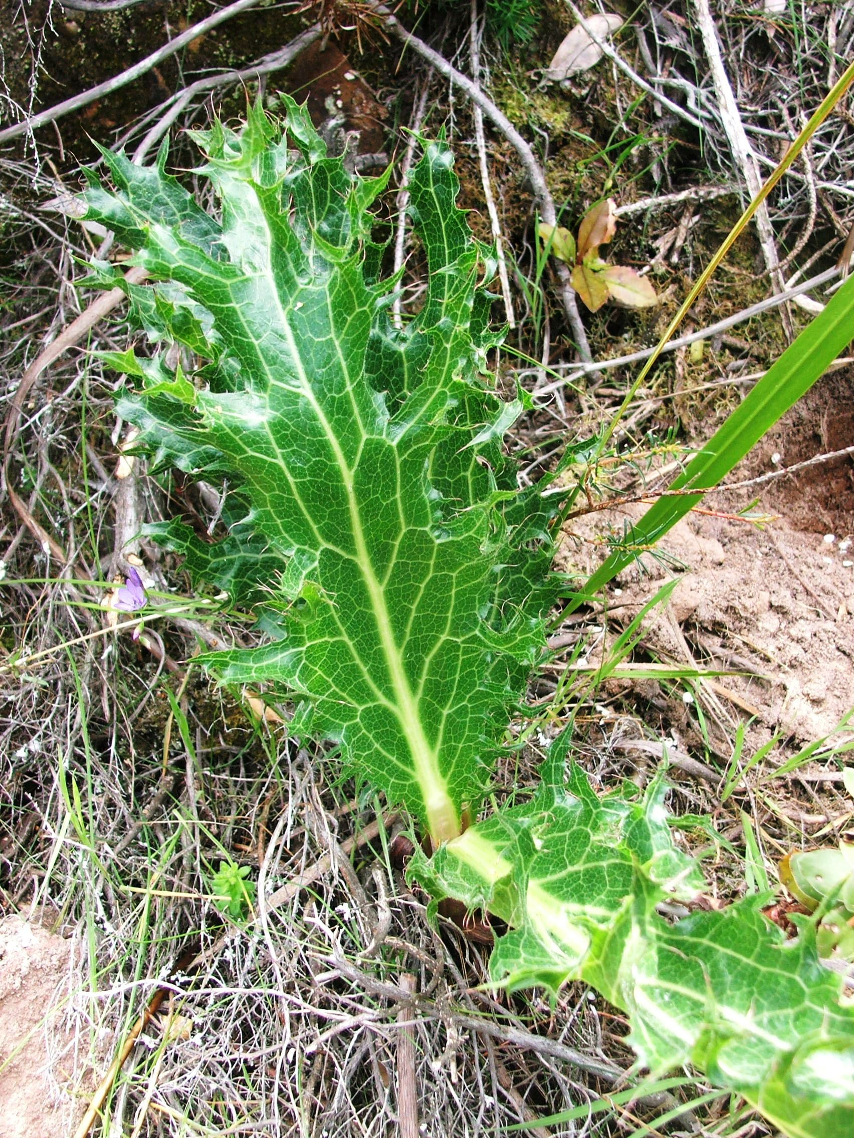 Lichtensteinia lacera. Geophyte of Cape Fynbos. South Africa.